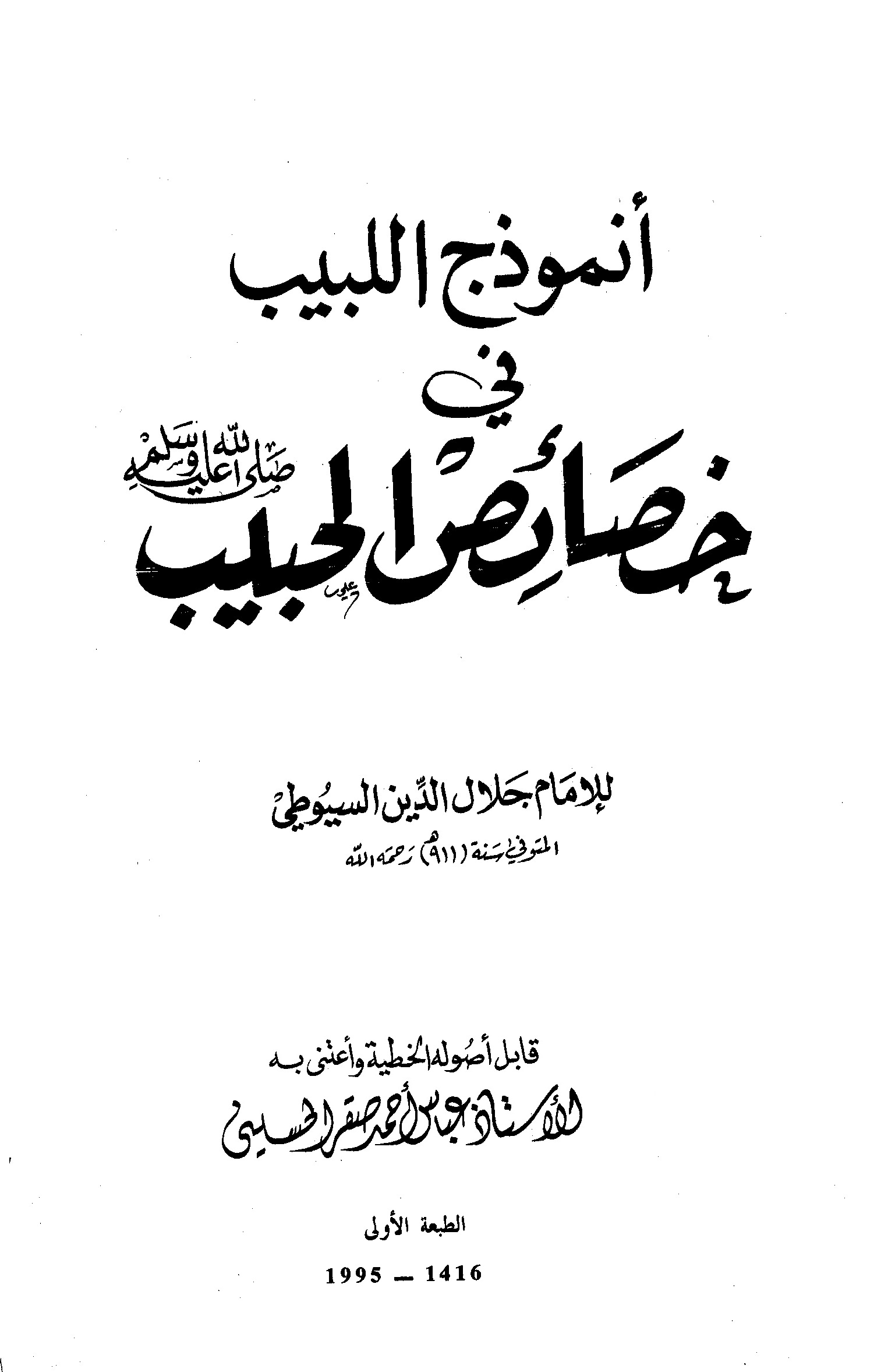 Annamuzujul-Labib-Khasais (Suyuti)